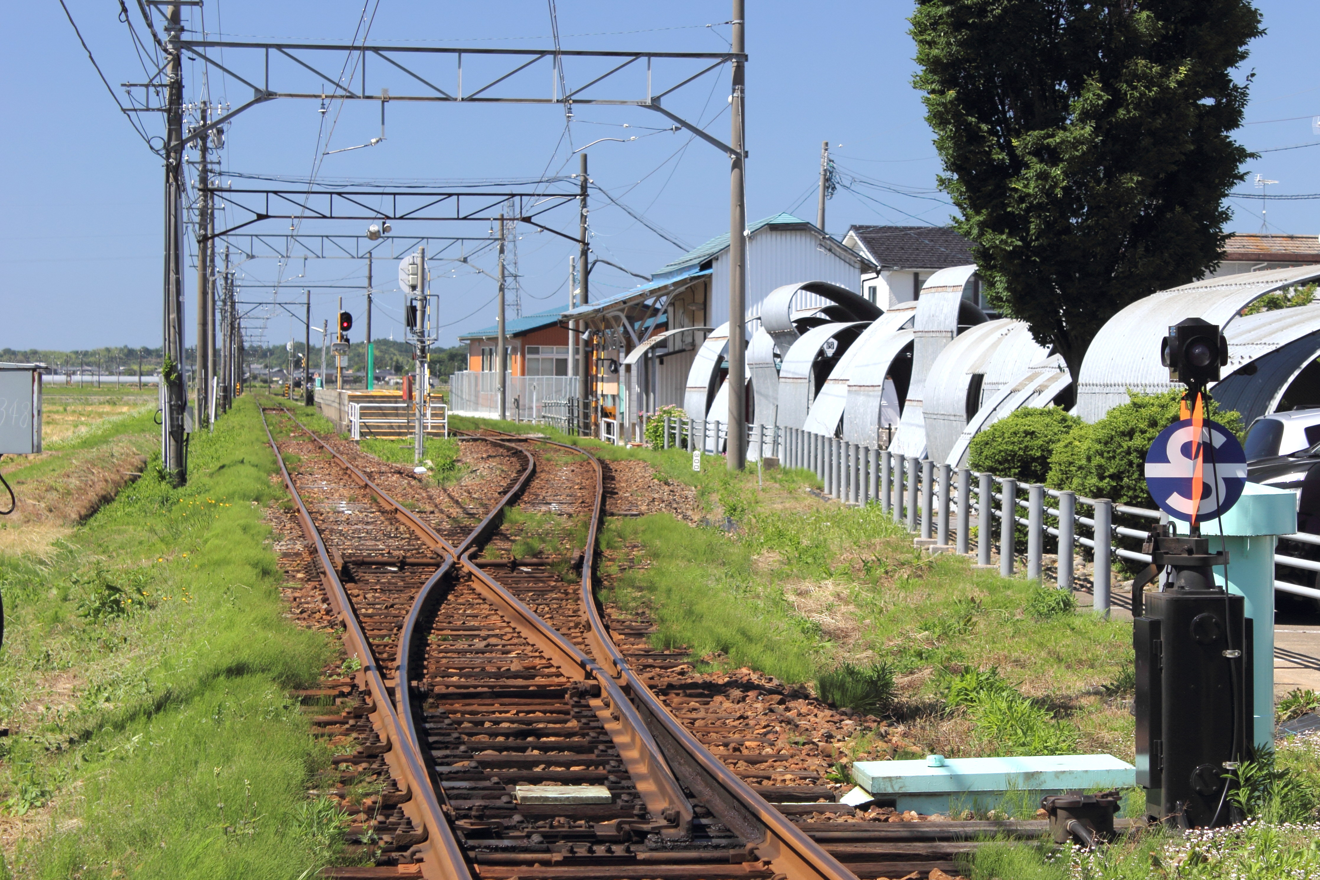 Ozeki Station in Fukui Prefecture, Japan Rail and Home